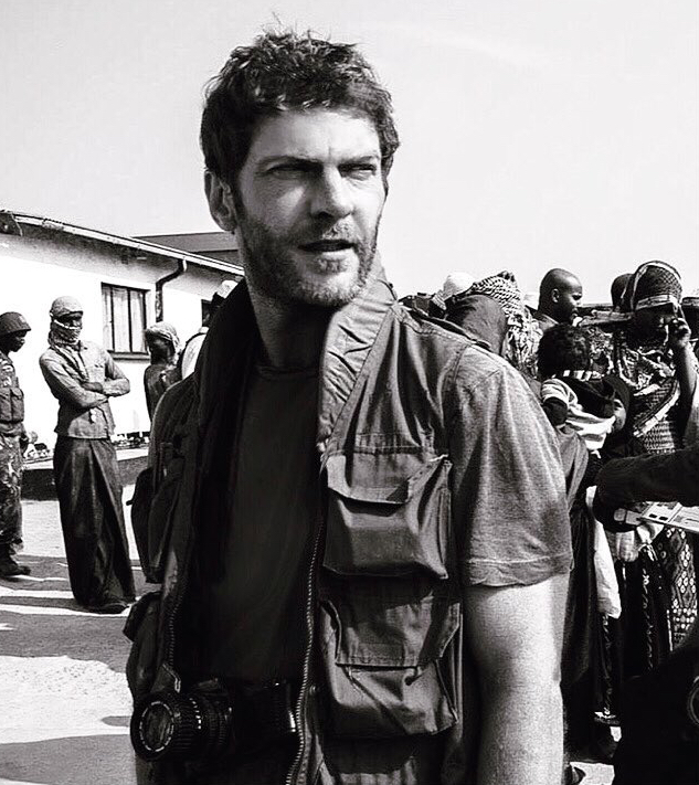 Sam Hazeldine on the set of The Journey Is The Destination, in Johannesburg, 2015